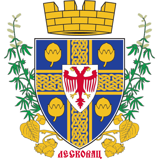 coat of arms city of leskovac with updated colours and eagle